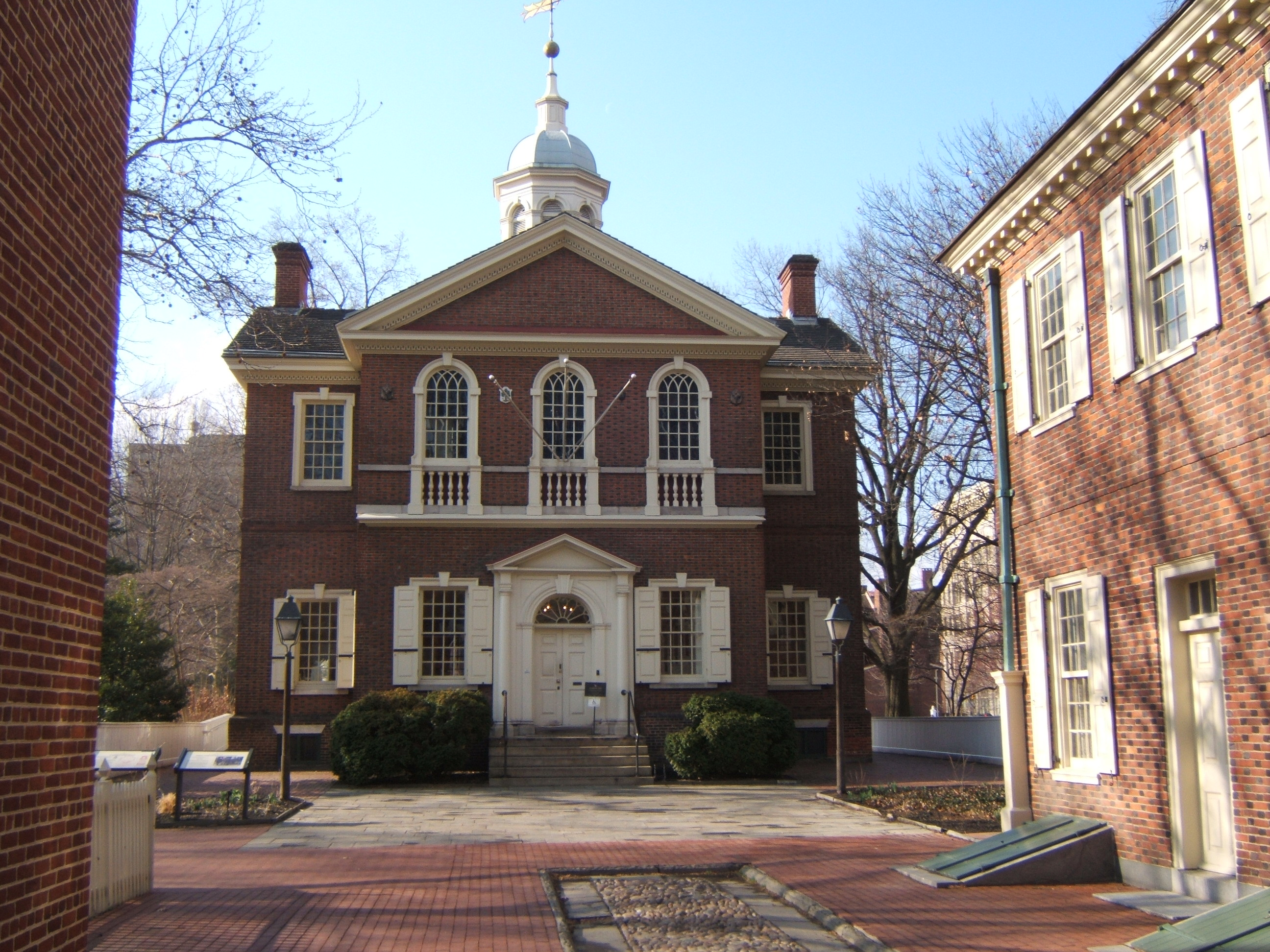 Carpenters’ Hall, built 1770-1774, by the Carpenters’ Company of the City and County of Philadelphia (still the owner), meeting place of the First Continental Congress, Autumn, 1774, first home of the Bank of the United States, 1791, and meeting place of many other early American organizations. Architect Robert Smith, in the Georgian style. Street address: 320 Chestnut Street, Philadelphia, PA 19106. National Register of Historic Places and National Historic Landmark, 1970. North (front) side, facing Chestnut Street. Object location39° 56′ 53.16″ N, 75° 08′ 49.92″ W